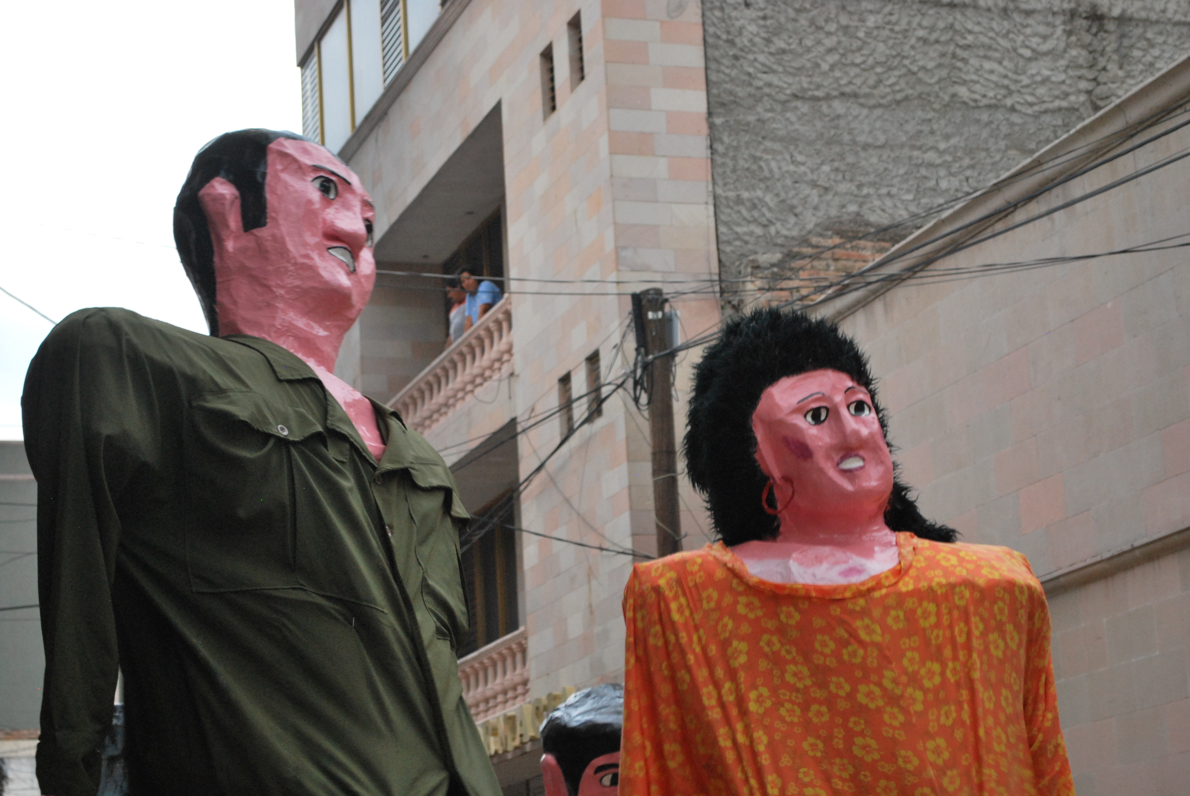 Mojigangas at the Festival del Mariachi, Charrería y Tequila in San Juan de los Lagos, Jalisco, Mexico